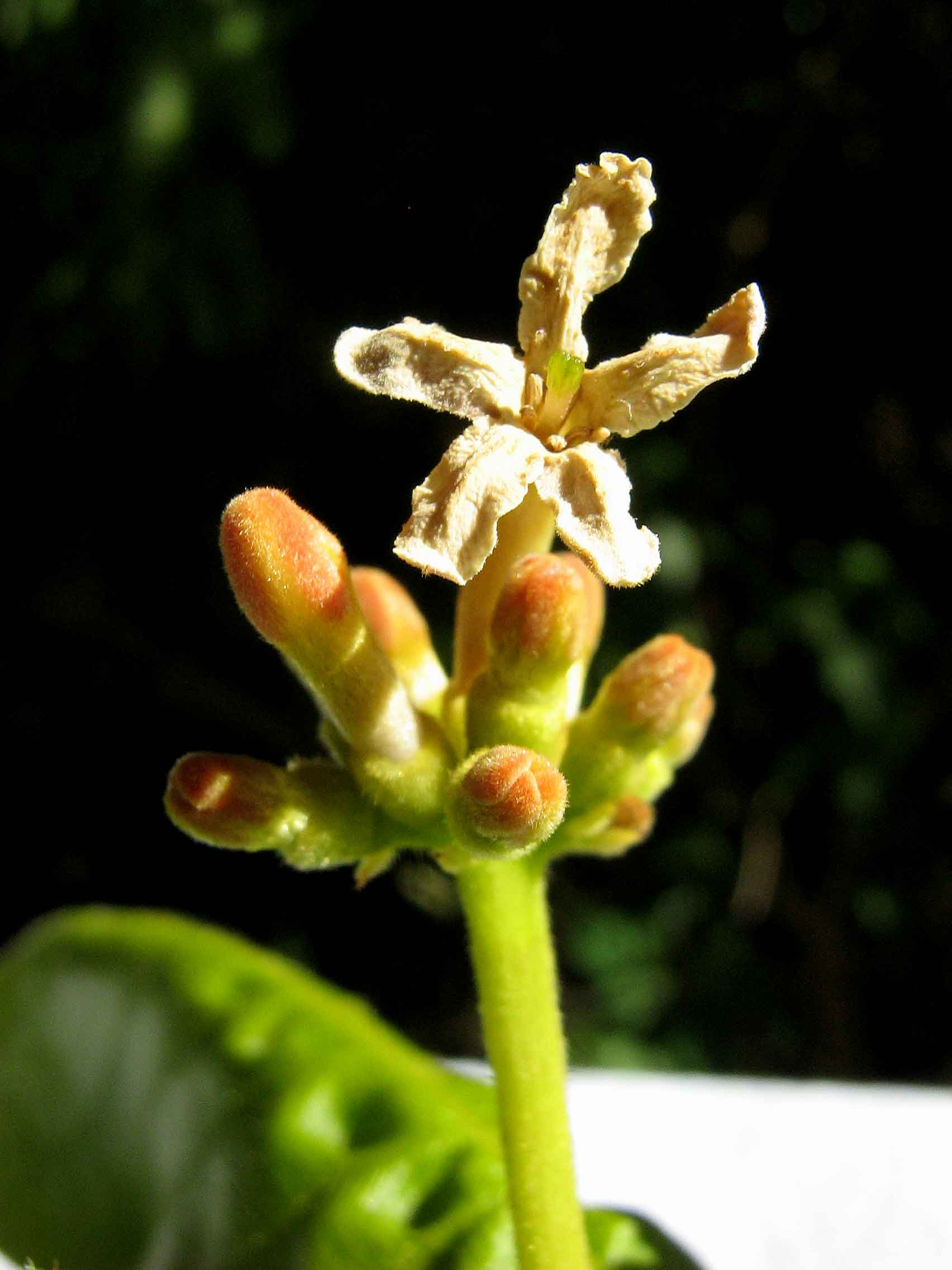 Flowers 10 x 10 mm.